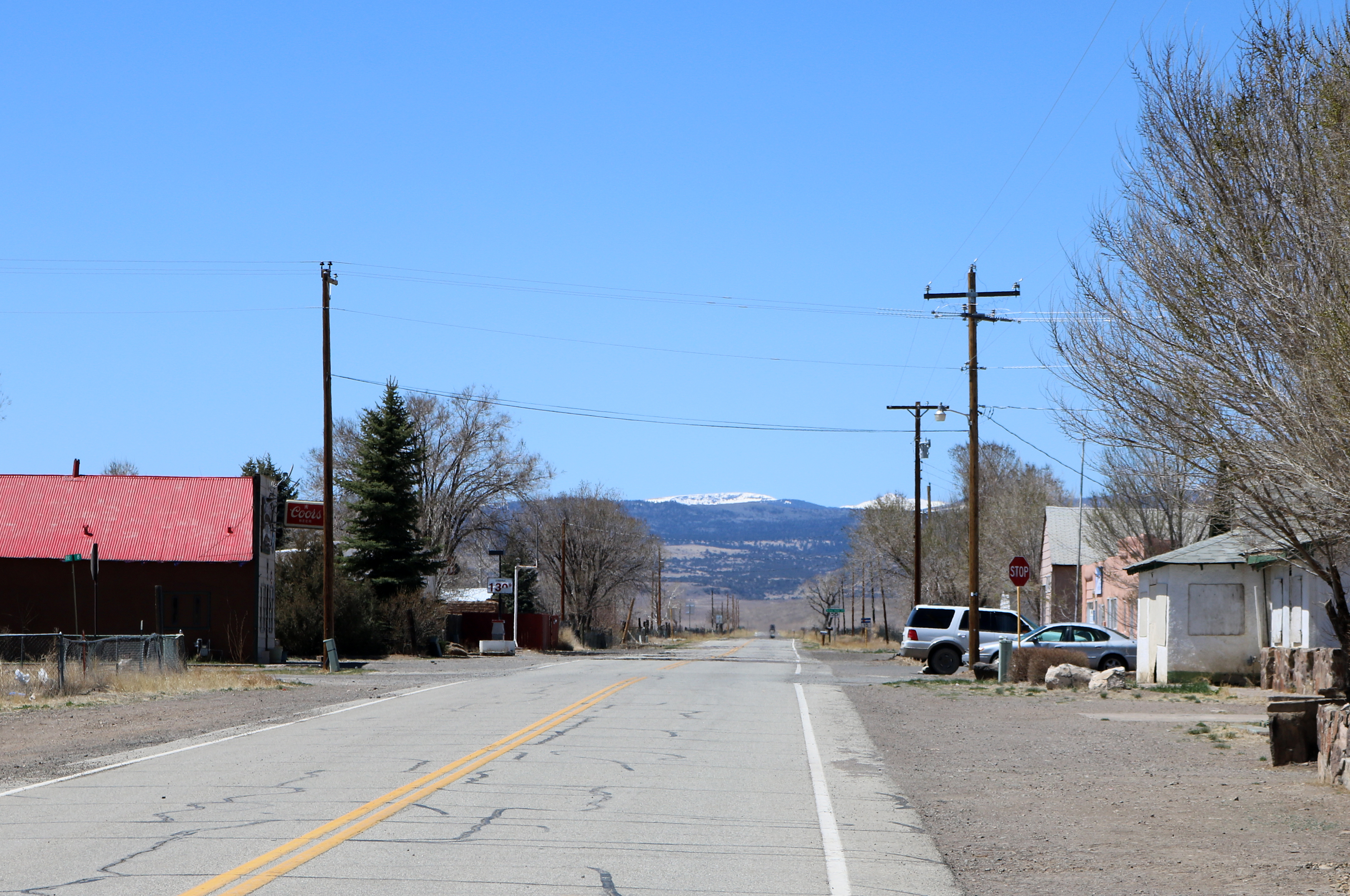 Looking west along Colorado State Highway 15 in Capulin, Colorado. The San Juan Mountains are visible in the distance.